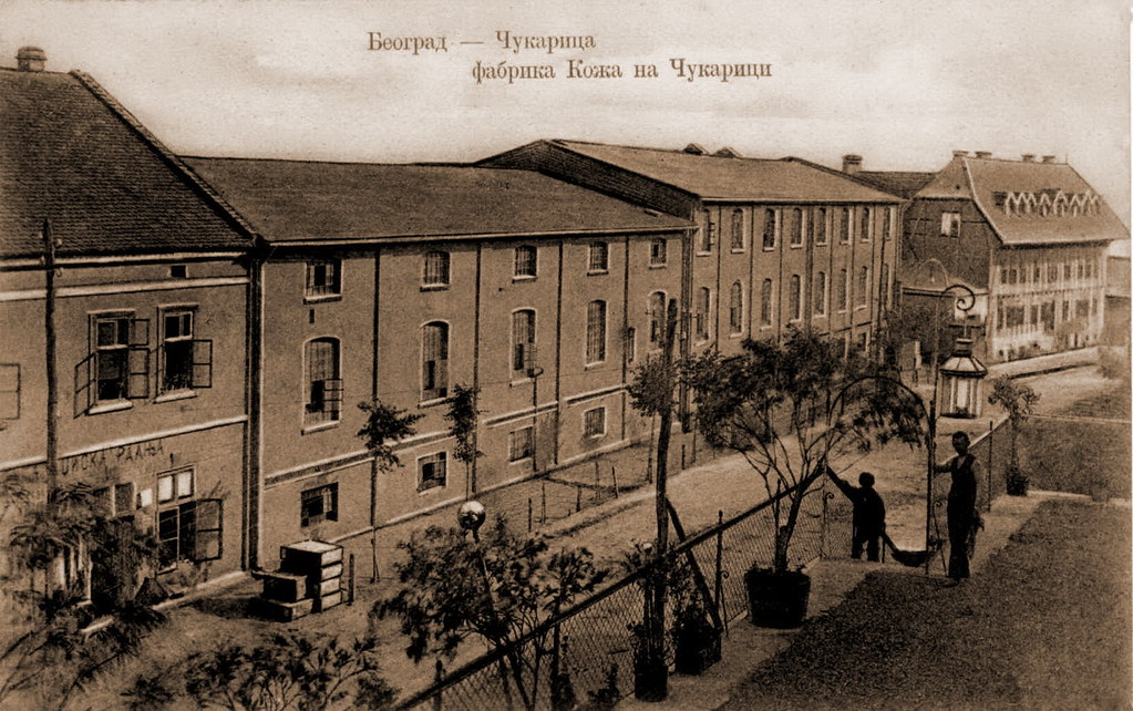 Belgrade, Čukarica, leather factory